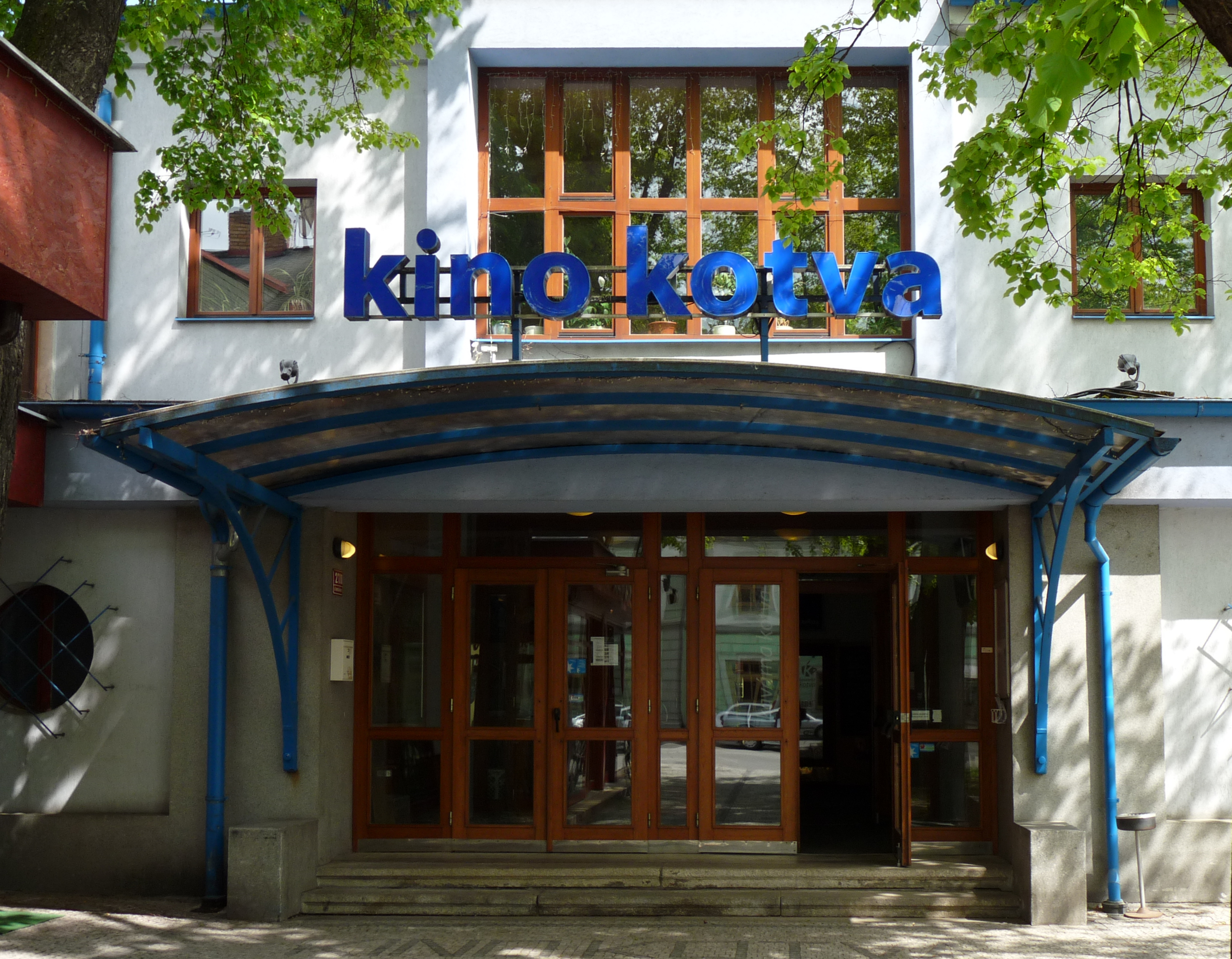 Building No 2110 in Lidická Street, Kotva cinema, in the city of České Budějovice, South Bohemian Region, Czech Republic.